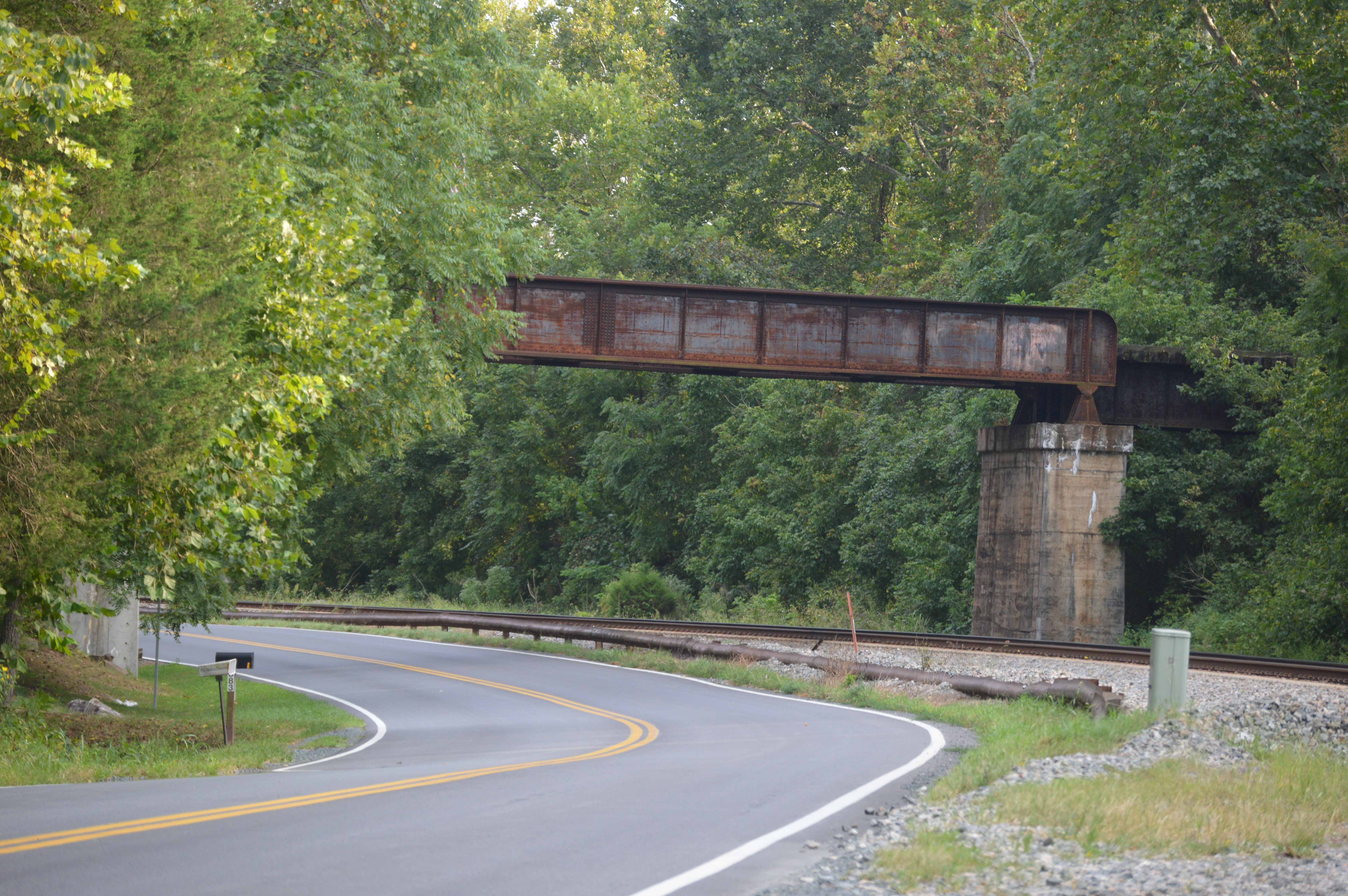 Southern side of one span of the Norfolk Southern Six Mile Bridge No. 58, which spans the James River and Mount Athos Road in Campbell (where this photo is taken) and Amherst counties in teh U.S. state of Virginia. Built in 1853, it is listed on the National Register of Historic Places.